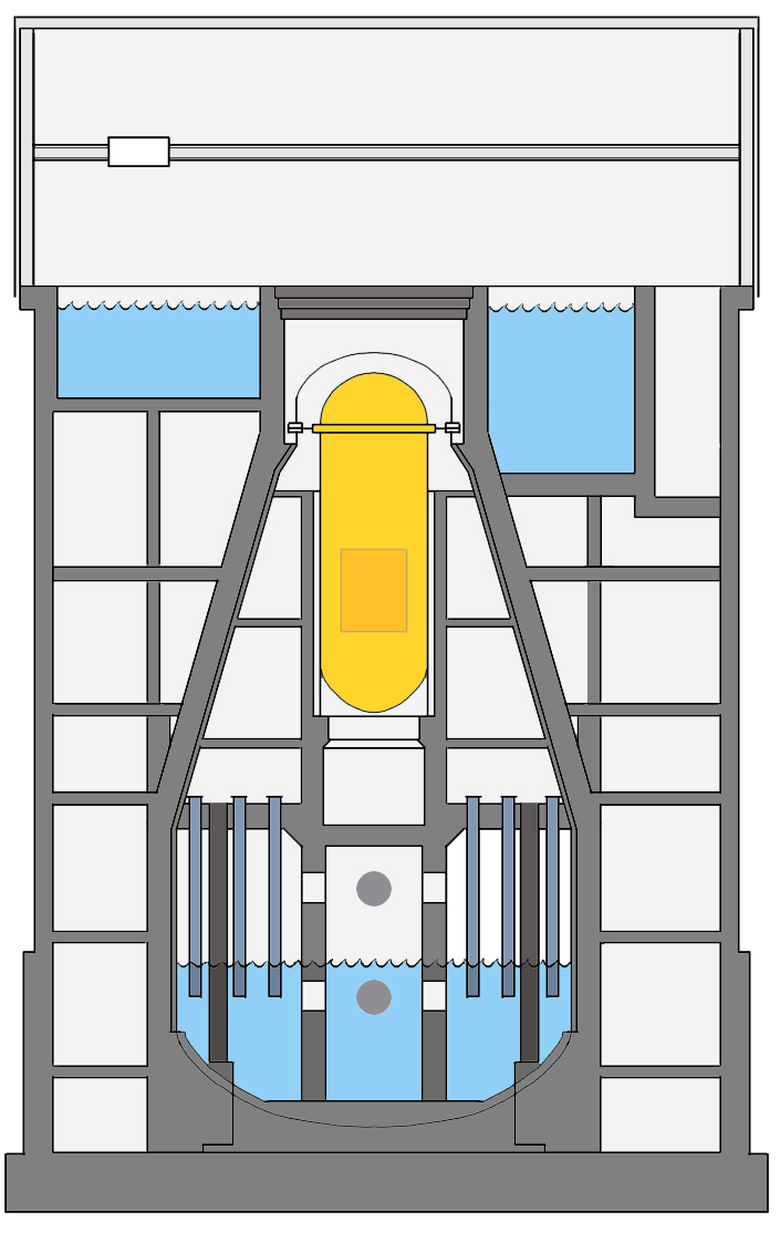 Schema of a BWR (boiling water reactor) Mark II. Yellow : reactor. Blue : Water.